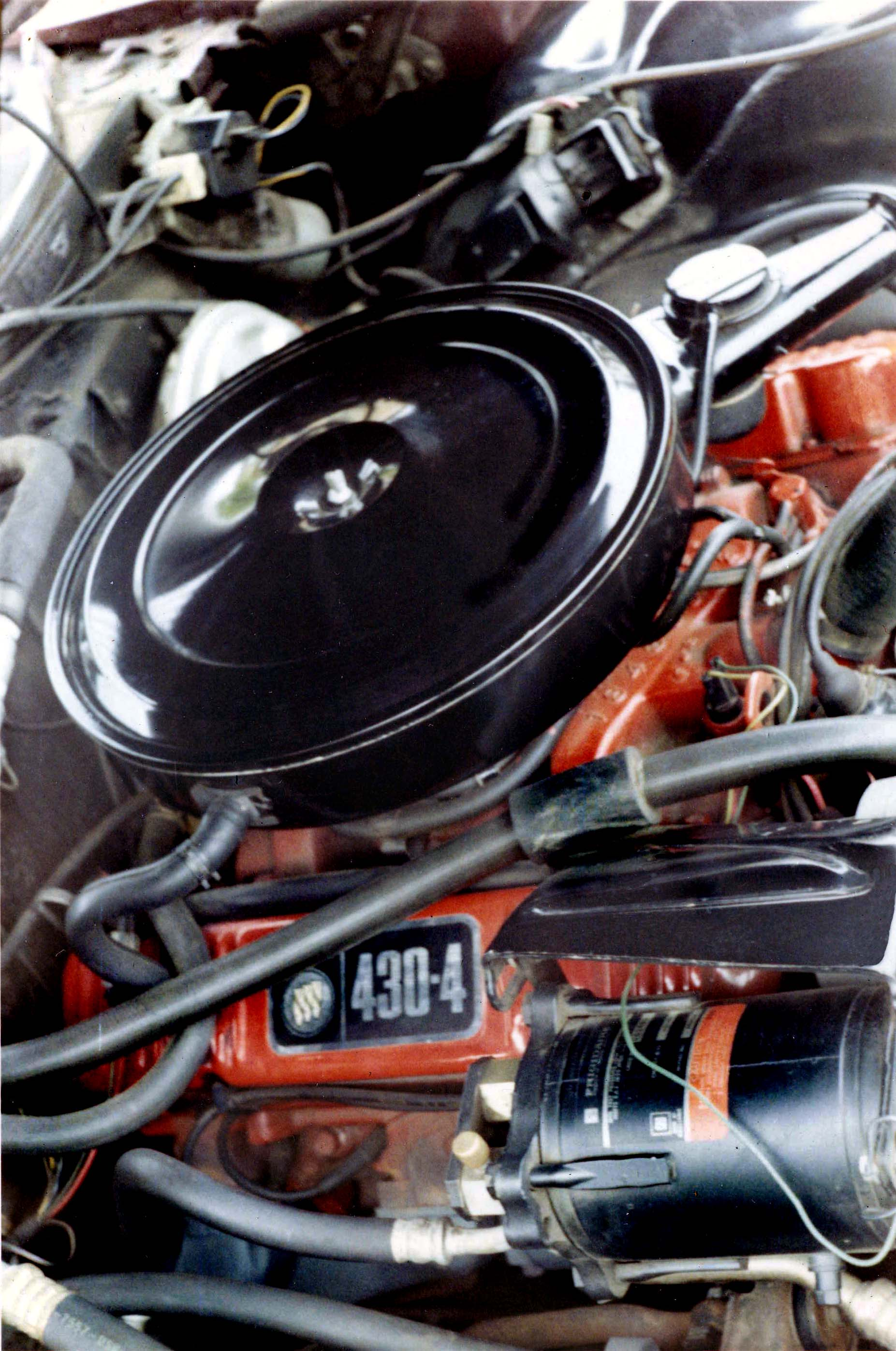 Taken May 1970 in Brooklyn, N.Y. Engine (Factory Specs): 430 CID - 360HP @ 5000 RPM (Gross) 475 ft/lbs Torque @ 3200 RPM 10.25:1 Compression 4-Barrel Carb Premium Fuel Axle Ratios: 3-Speed Auto (Super Turbine) - 3.07 3-Speed Manual - 3.07